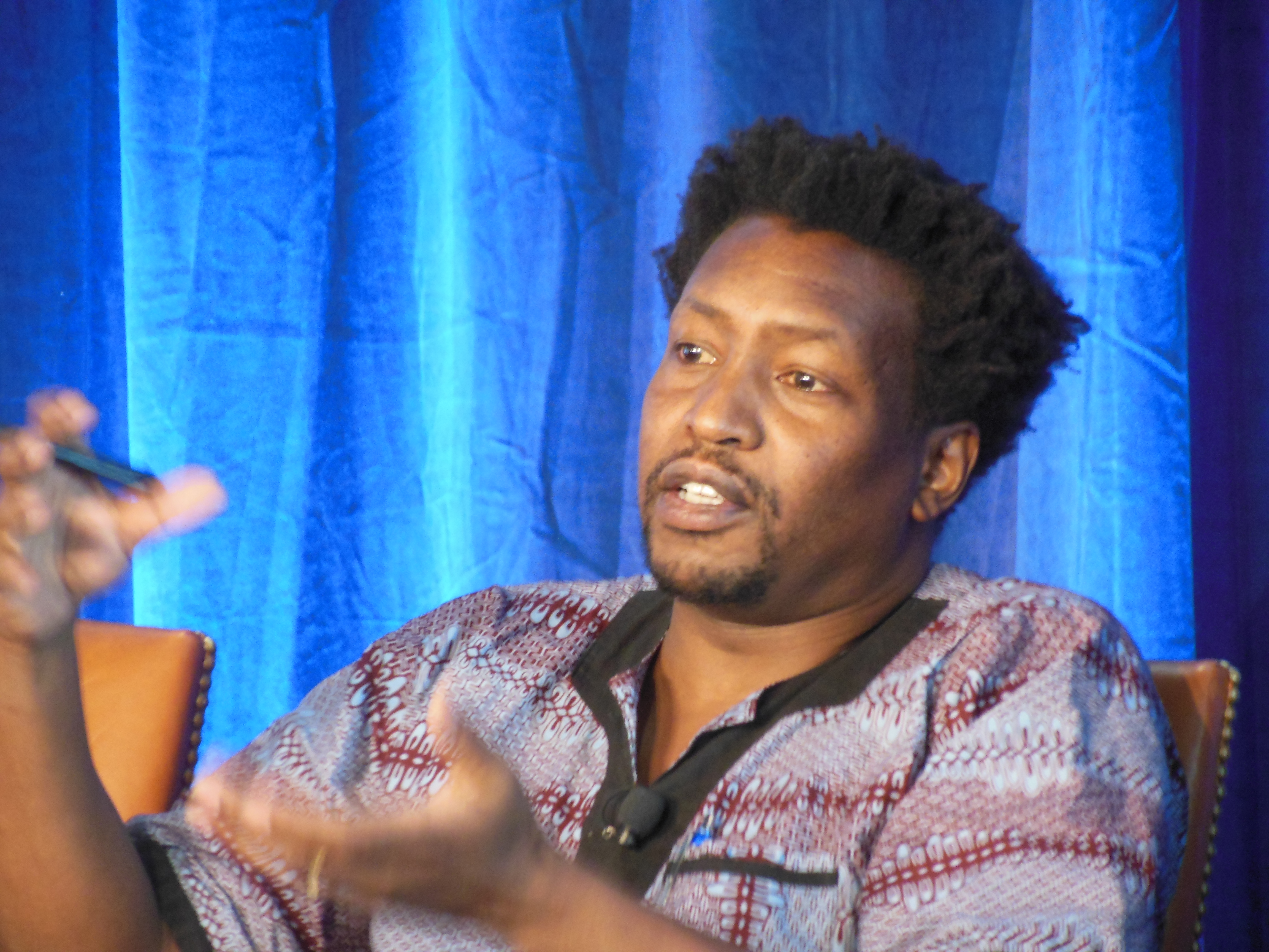 reading at Africa Imagines, Georgetown University, Washington, D.C.